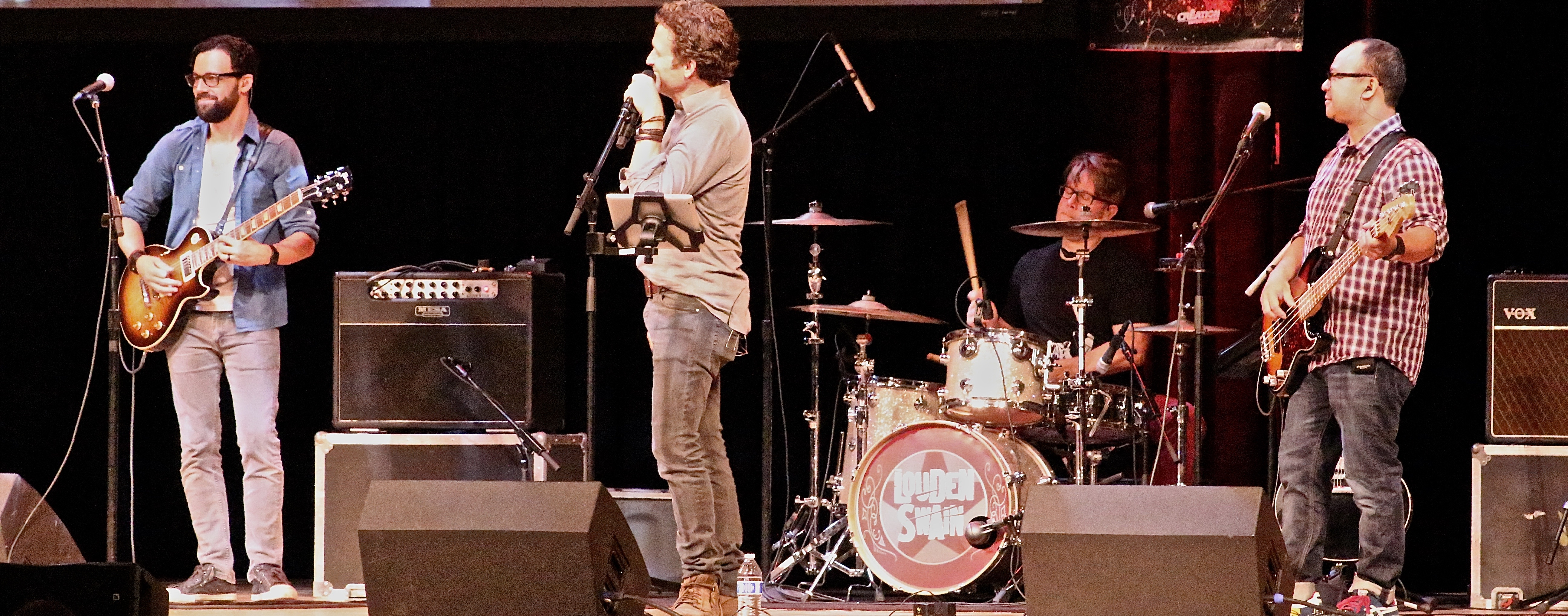 Louden Swain performing at MinnCon in 2015